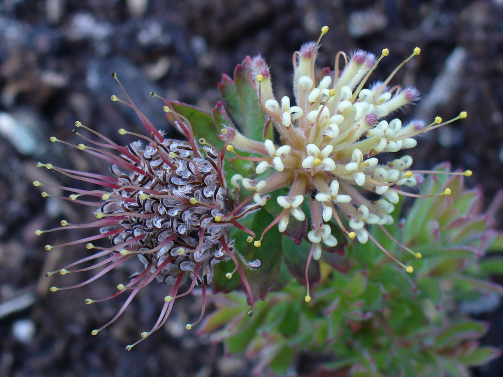 Leucospermum heterophyllum flower